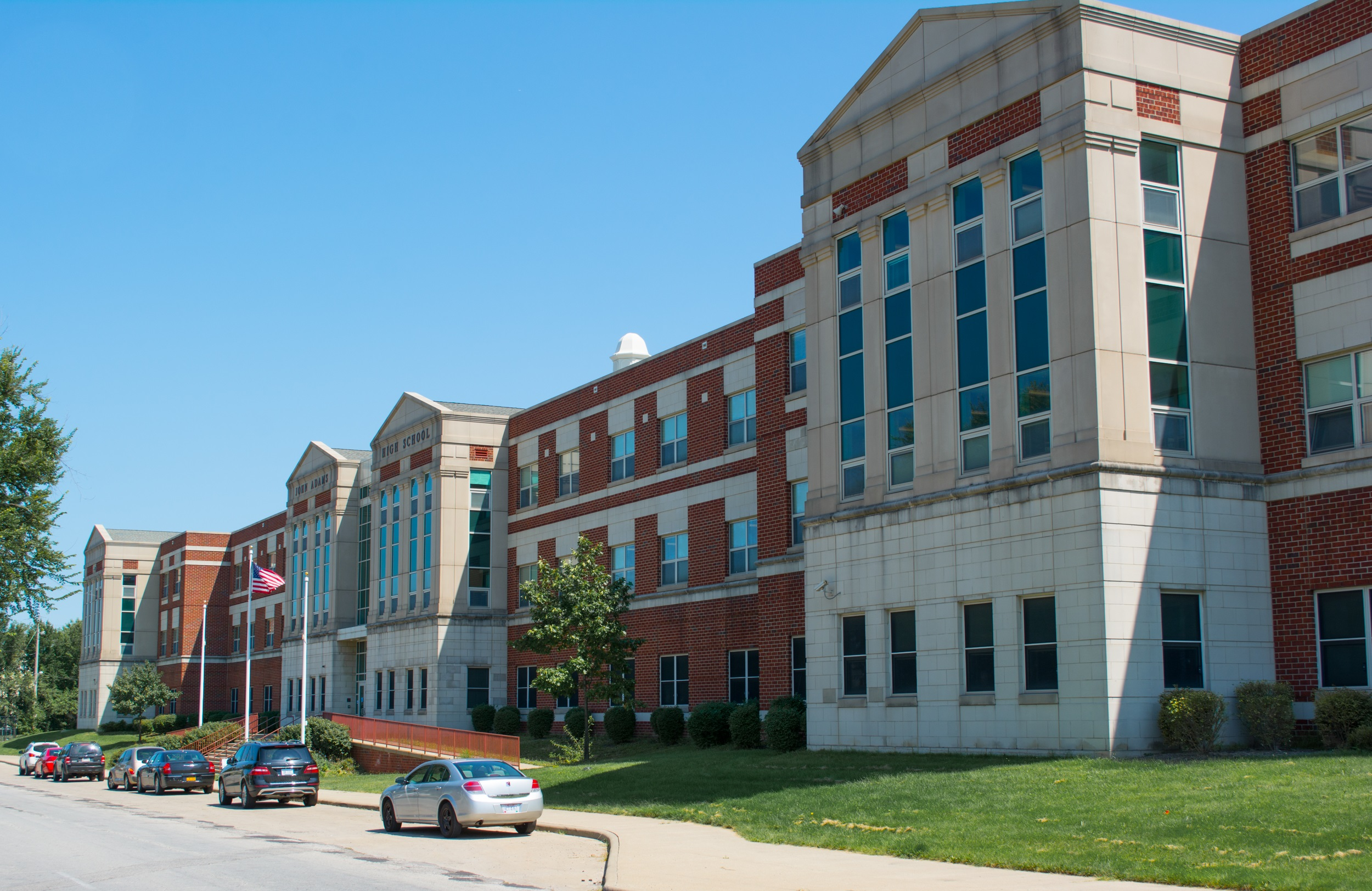 Looking slightly northeast at the west facade of John Adams High School located at 3817 Martin Luther King Drive in the Union-Miles Park neighborhood in Cleveland, Ohio, in the United States. John Adams High School was the first secondary school in the Union-Miles Park / Corlett area. It opened in 1923, closed in 1995, and was torn down in 1999. The school district sold the site to the city in 1999. The school district repurchased the site in 2003 and constructed a new, $36.8 million ($43,700,000 in 2016 dollars) John Adams High School on the site. It opened in the fall of 2006.